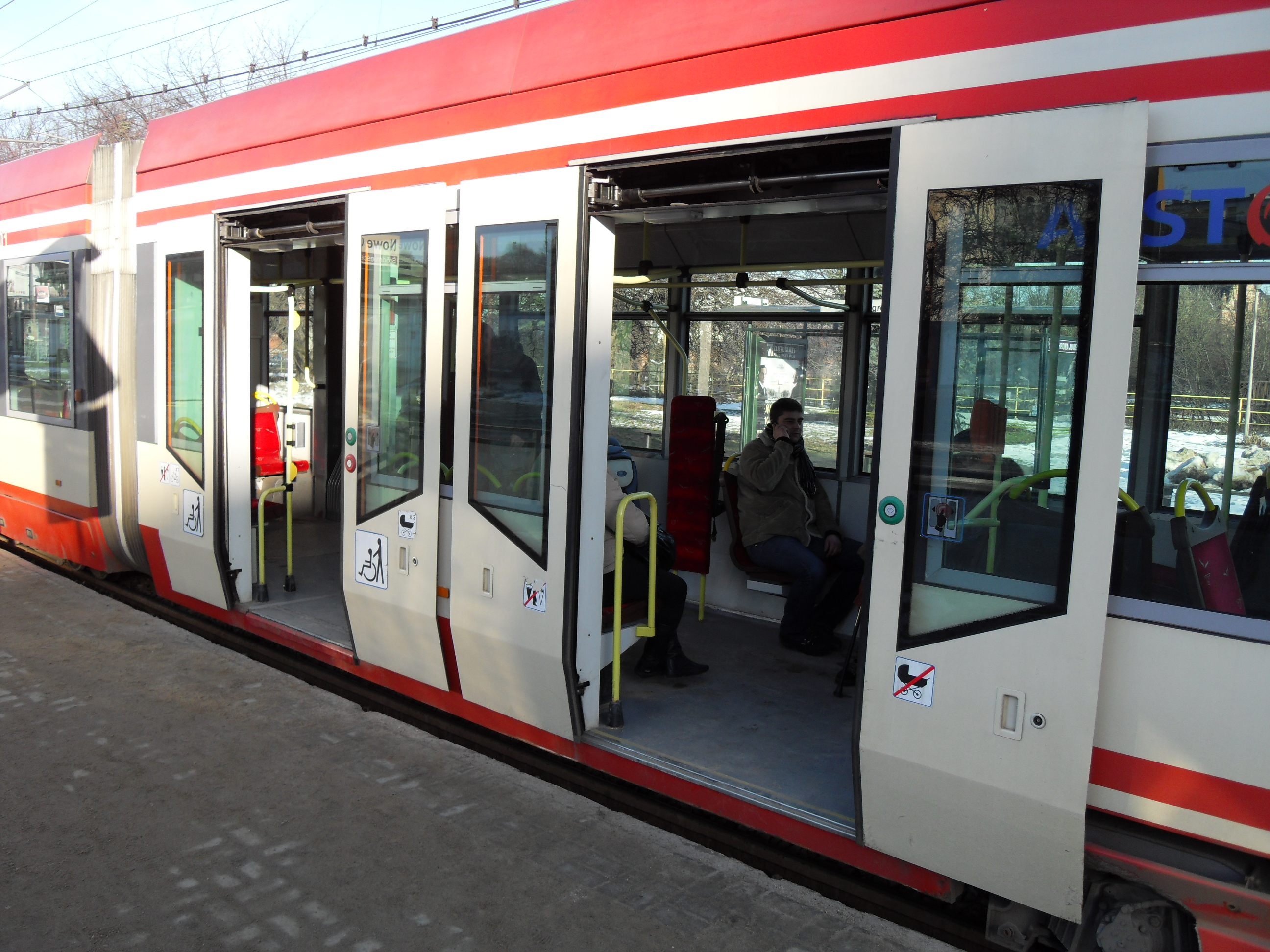 A Konstal NGd99 tram in Gdańsk - the doors (the first module).